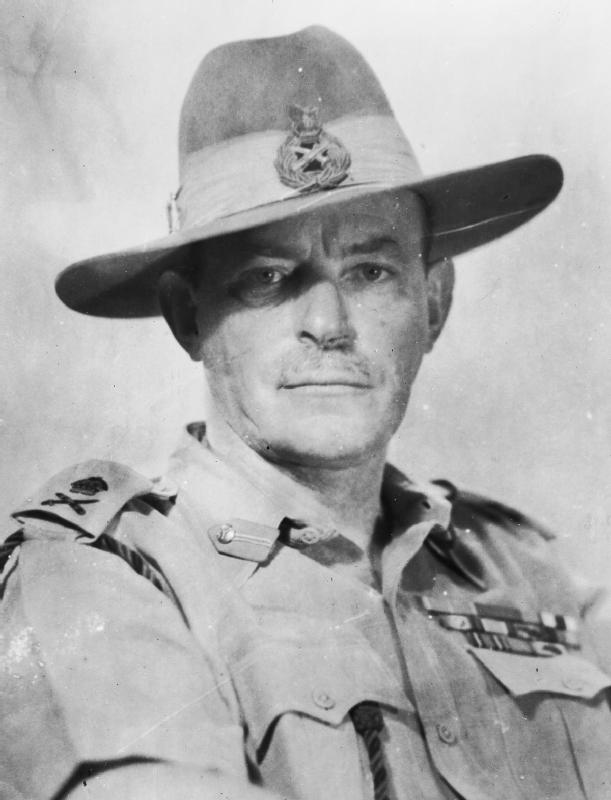 Lieutenant General Sir Montagu Stopford, who took over command of Allied land forces in Burma when the 14th Army was dissolved in August 1945.